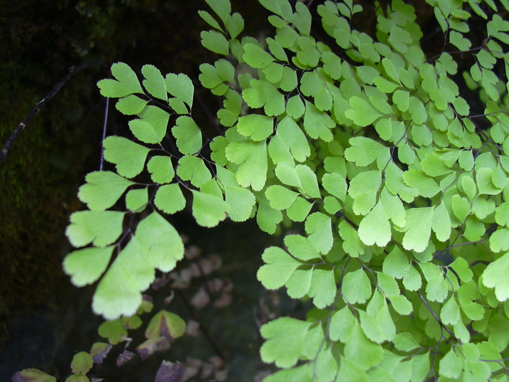 Adiantum raddianum (habit). Location: Maui, Keanae Arboretum